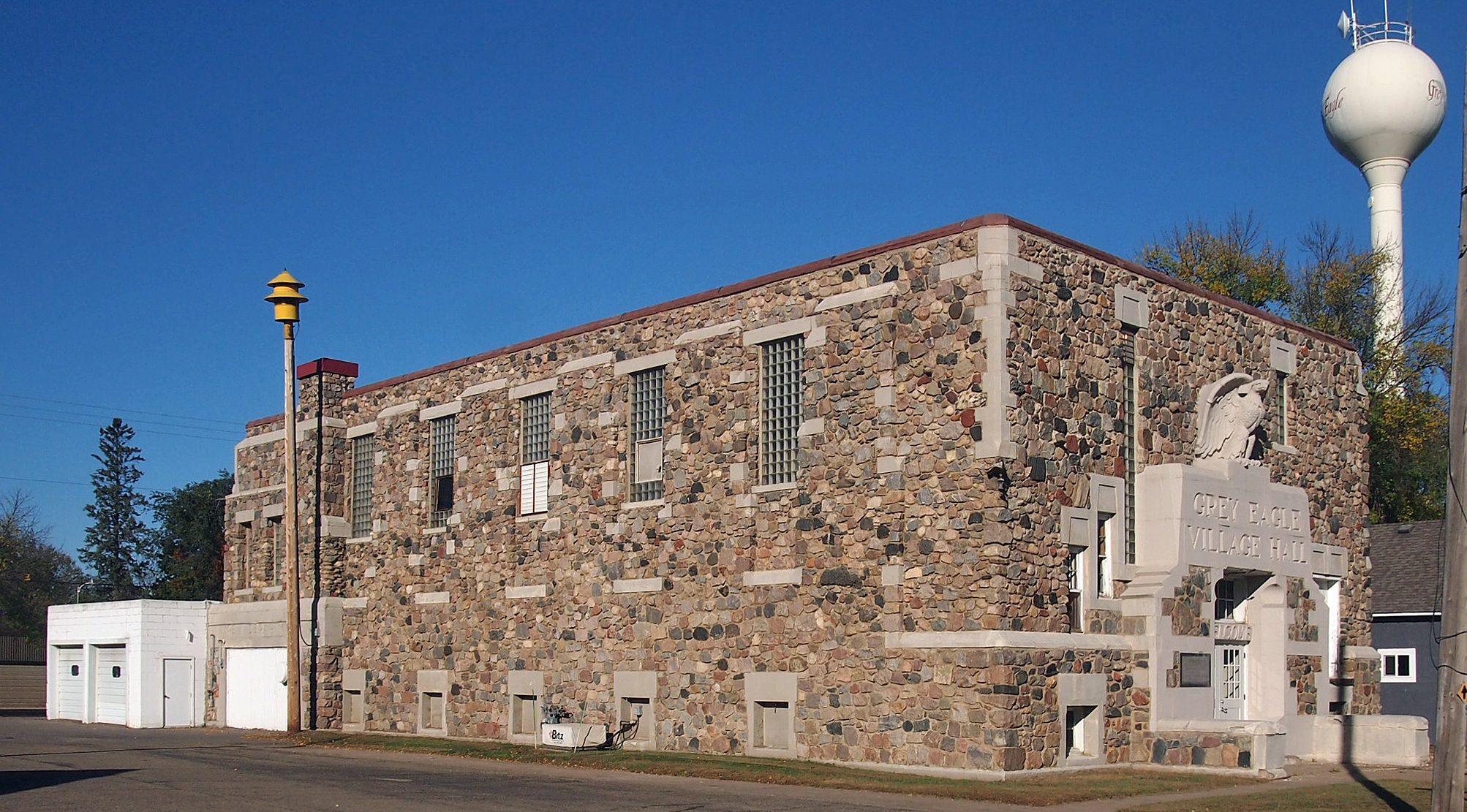 Grey Eagle Village Hall and water tower, Grey Eagle, Minnesota, USA. Viewed from the southwest.